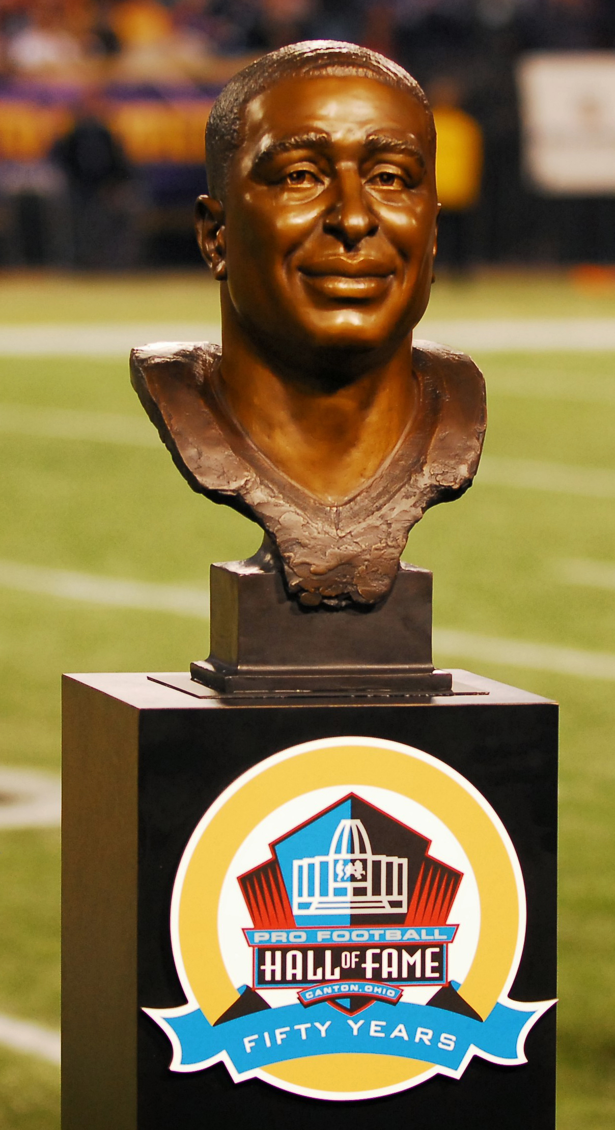 Cris Carter bust from Pro Football Hall of Fame to Metrodome